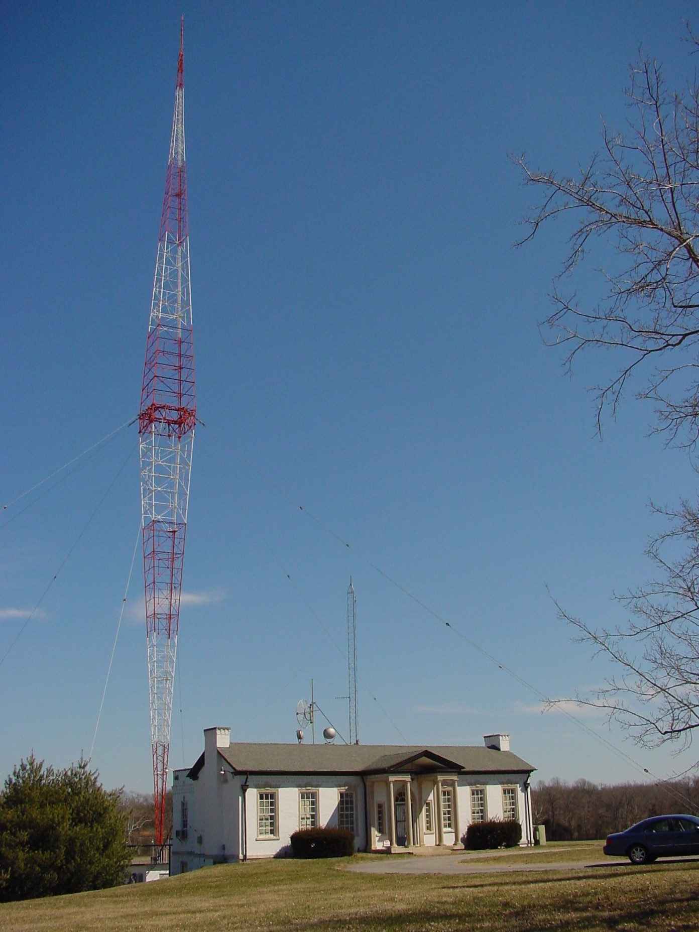 The WSM Blaw-Knox tower and transmitter building in Brentwood, Tennessee in March 2002.